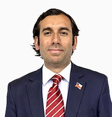 Official photo of Fernando Arab Verdugo as Undersecretary of Labor of Chile in 2018